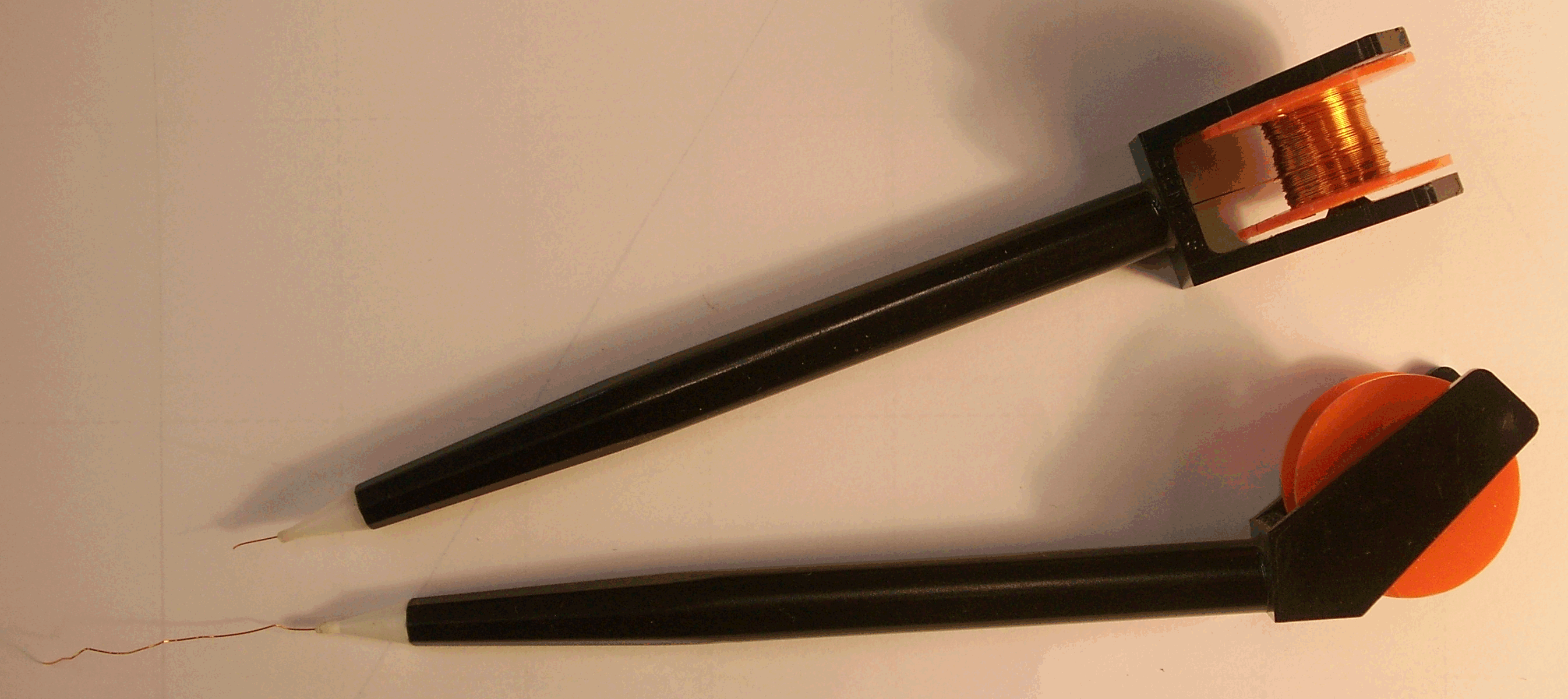 Picture of two wiring pencils